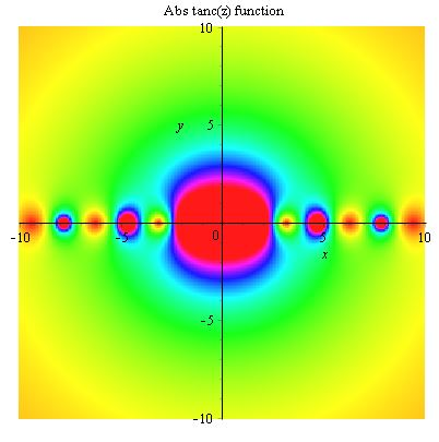 Tanc abs plot